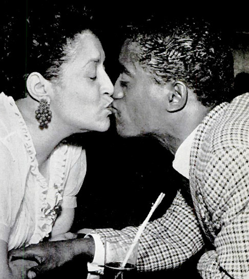 Photo of Sammy Davis, Jr. and his mother Elvera at Grace's Little Belmont in 1954. Elvera Davis worked at the bar of Grace's Little Belmont for many years. Davis was performing at the 500 Club in Atlantic City at the time. During his engagement there, he visited his mother at Grace's every evening after his performances at the 500 Club. A search for renewal was done at . There were no renewals for Jet by Johnson Publishing Company. The 2 listings for Jet are new registrations in 2010 and 2011. A search for the photographer, G. Marshall Wilson, also turned up no results. There's no evidence of continuing copyright.